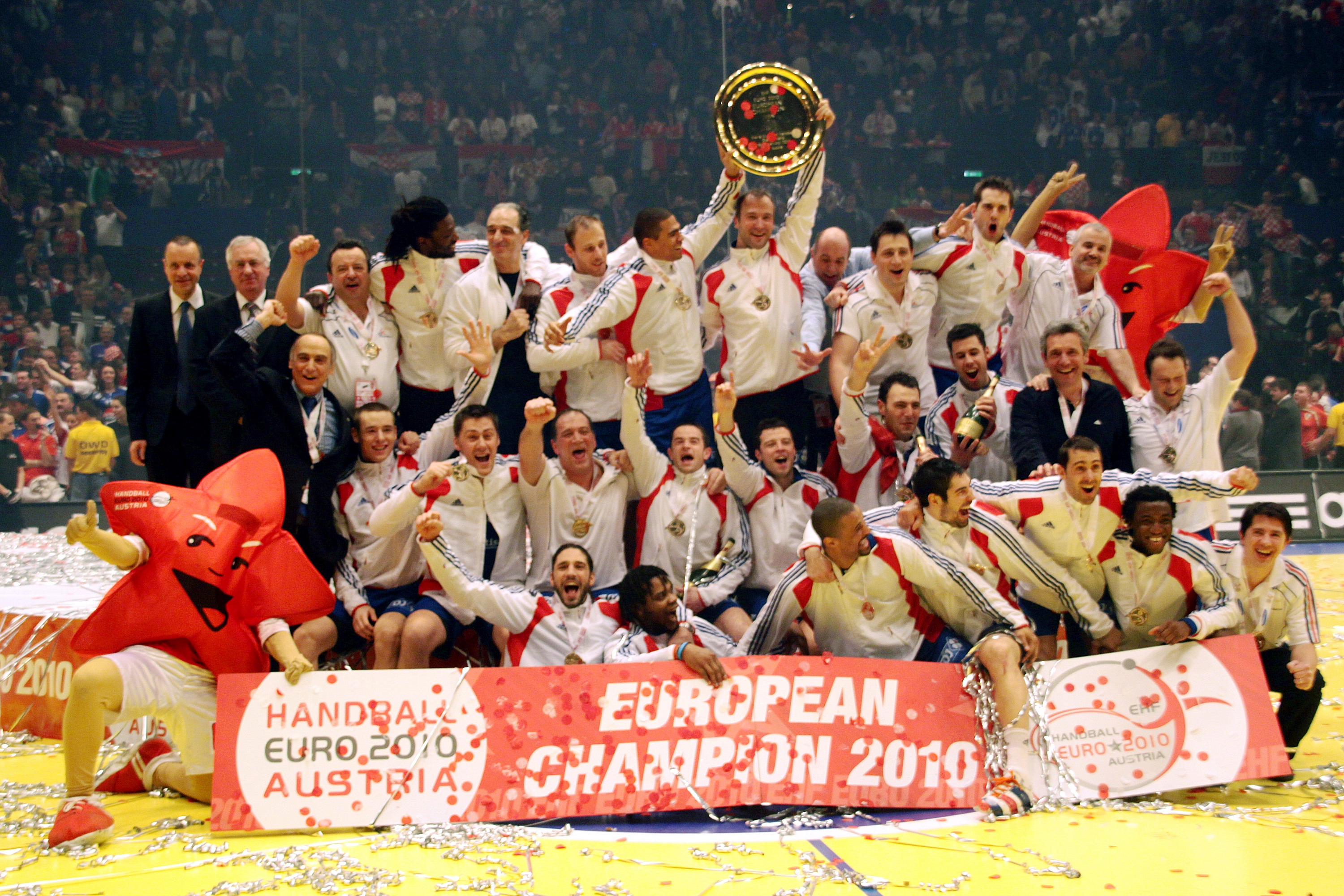 The players of the France national handball team are jubilant about the first place in the 2010 European Men's Handball Championship